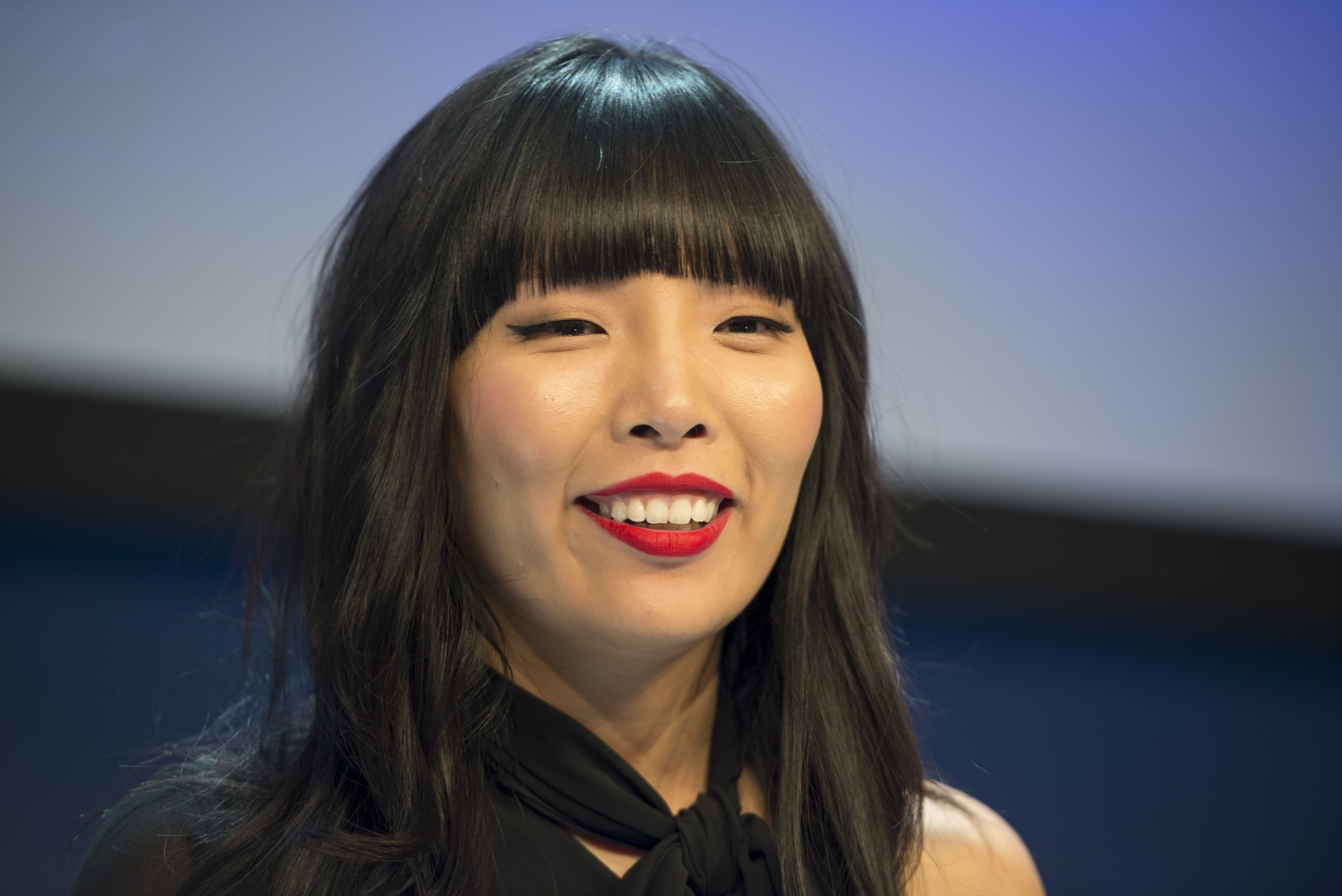 Dami Im at a Meet & Greet during the Eurovision Song Contest 2016 in Stockholm. (Help translate this text)